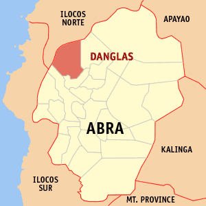 Map of Abra showing the location of Danglas